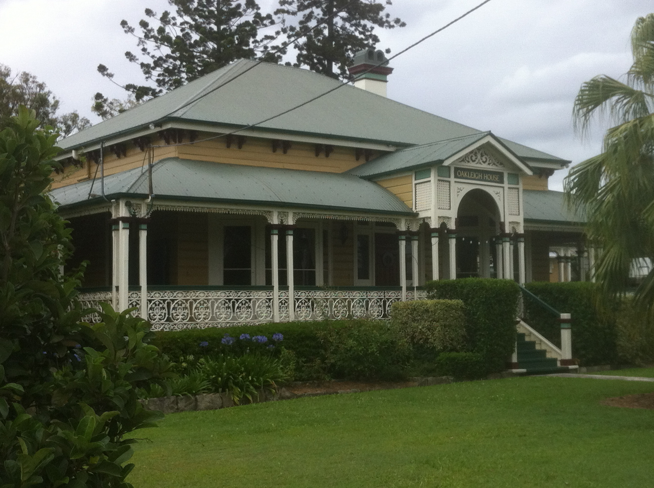 The house at 17 Murray Street is a well-known landmark in Brisbane. It is a colonial timber house moved to this site in 1900. It listed on the Brisbane Heritage Register.